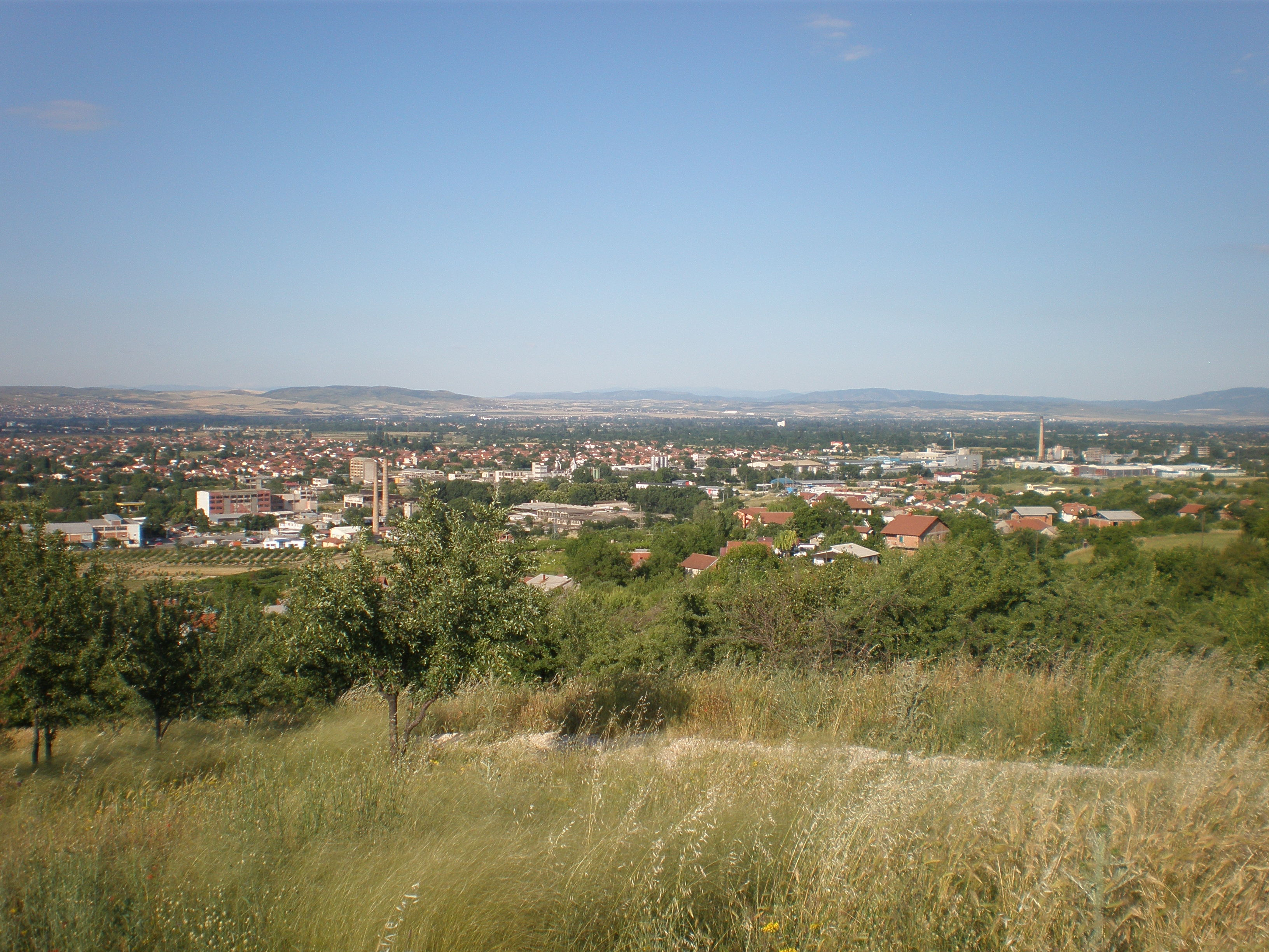 View to Gorno Lisiche from the hills near Usje, Macedonia